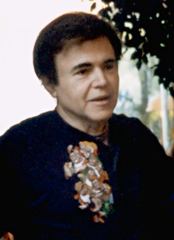 American actor Walter Koenig at FedCon IV in Bonn, Germany 1996.